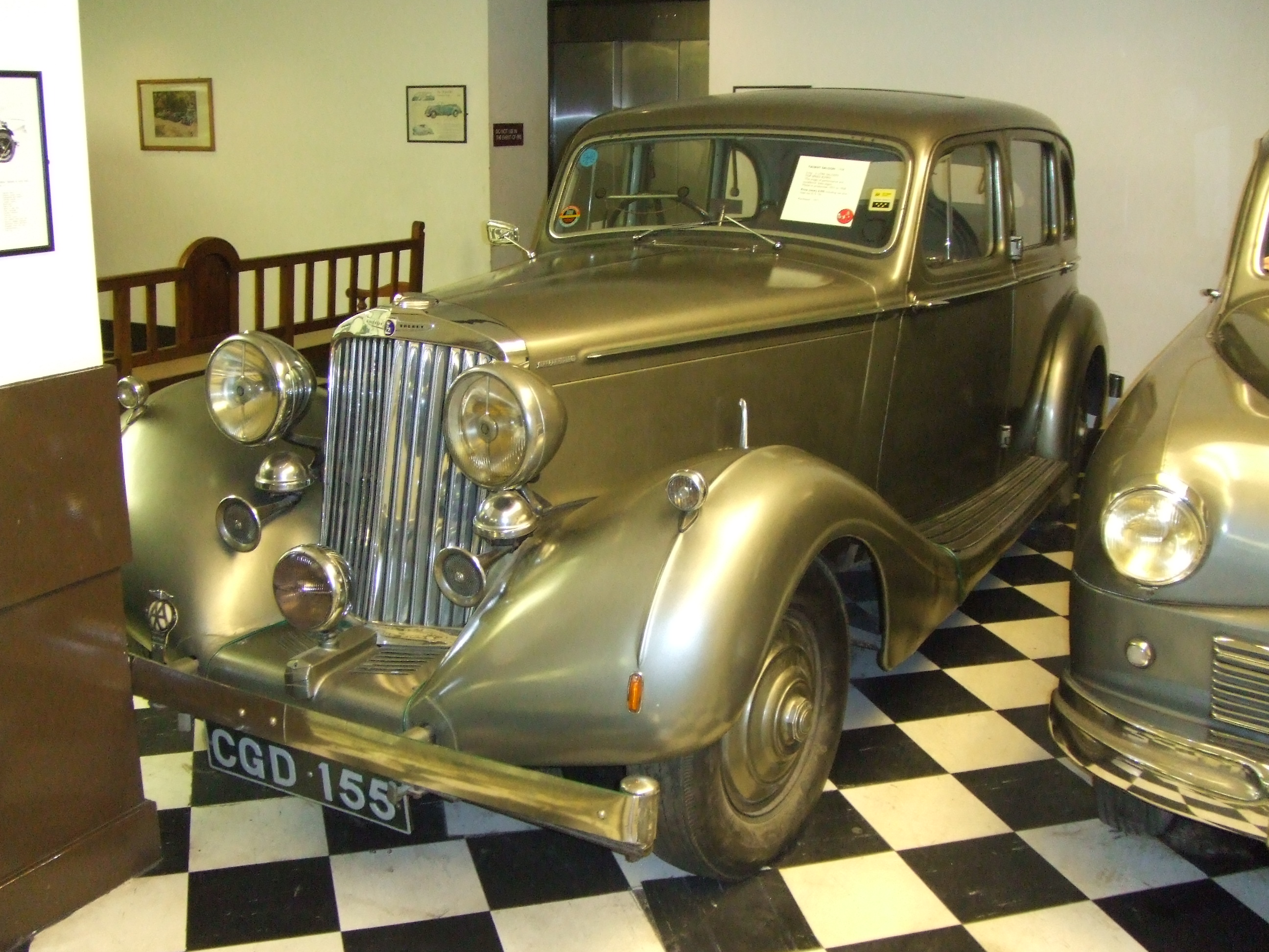 1938 Sunbeam Talbot Supreme 3 litre at the Glasgow Transport Museum, 03/07.